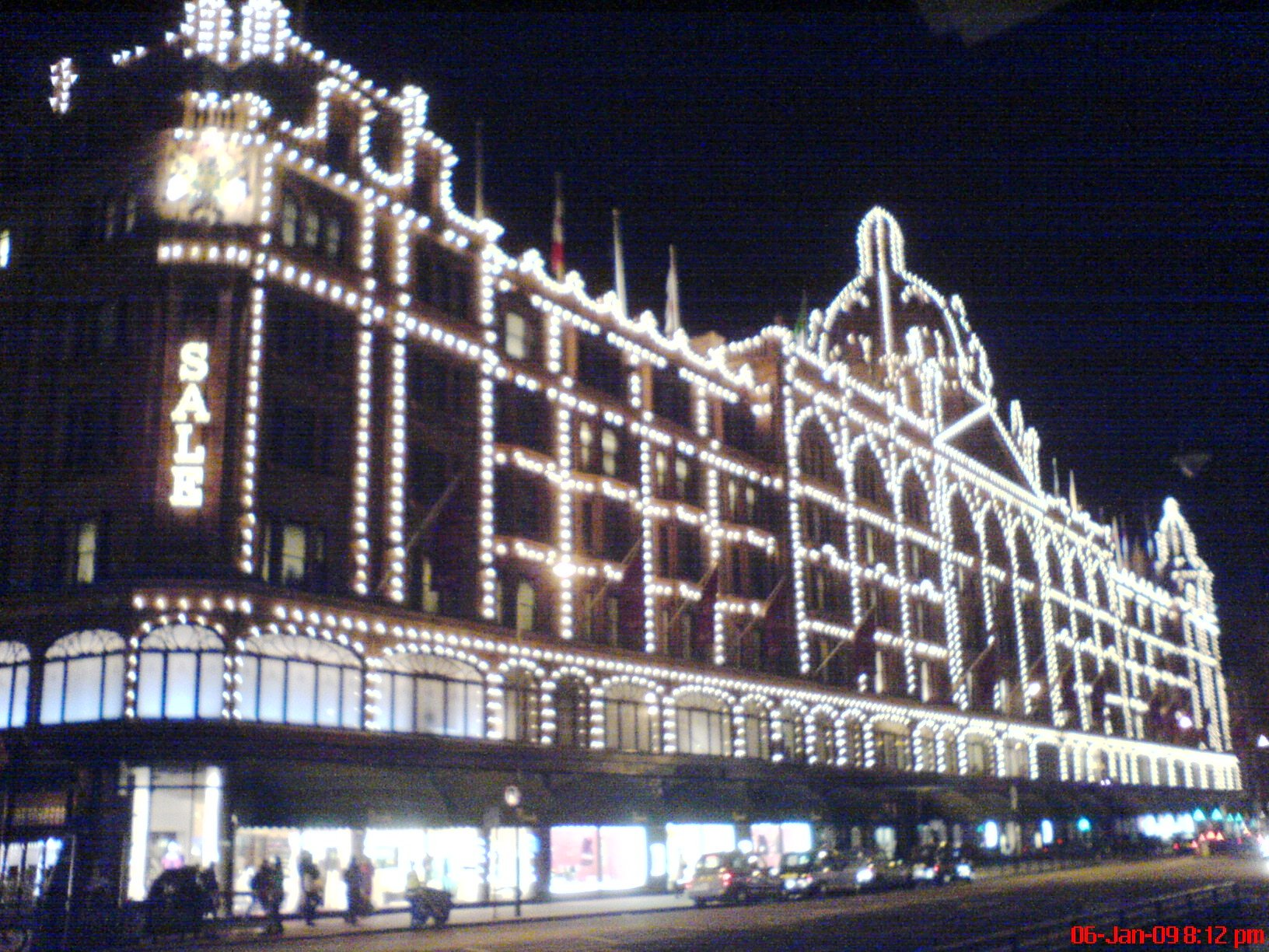 Harrods Christmas lights 2009